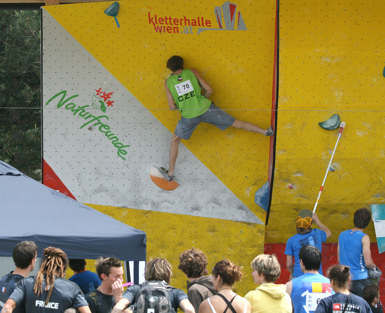 Ondřej Nevělík during qualifications at the IFSC Boulder Worldcup Vienna 2010.